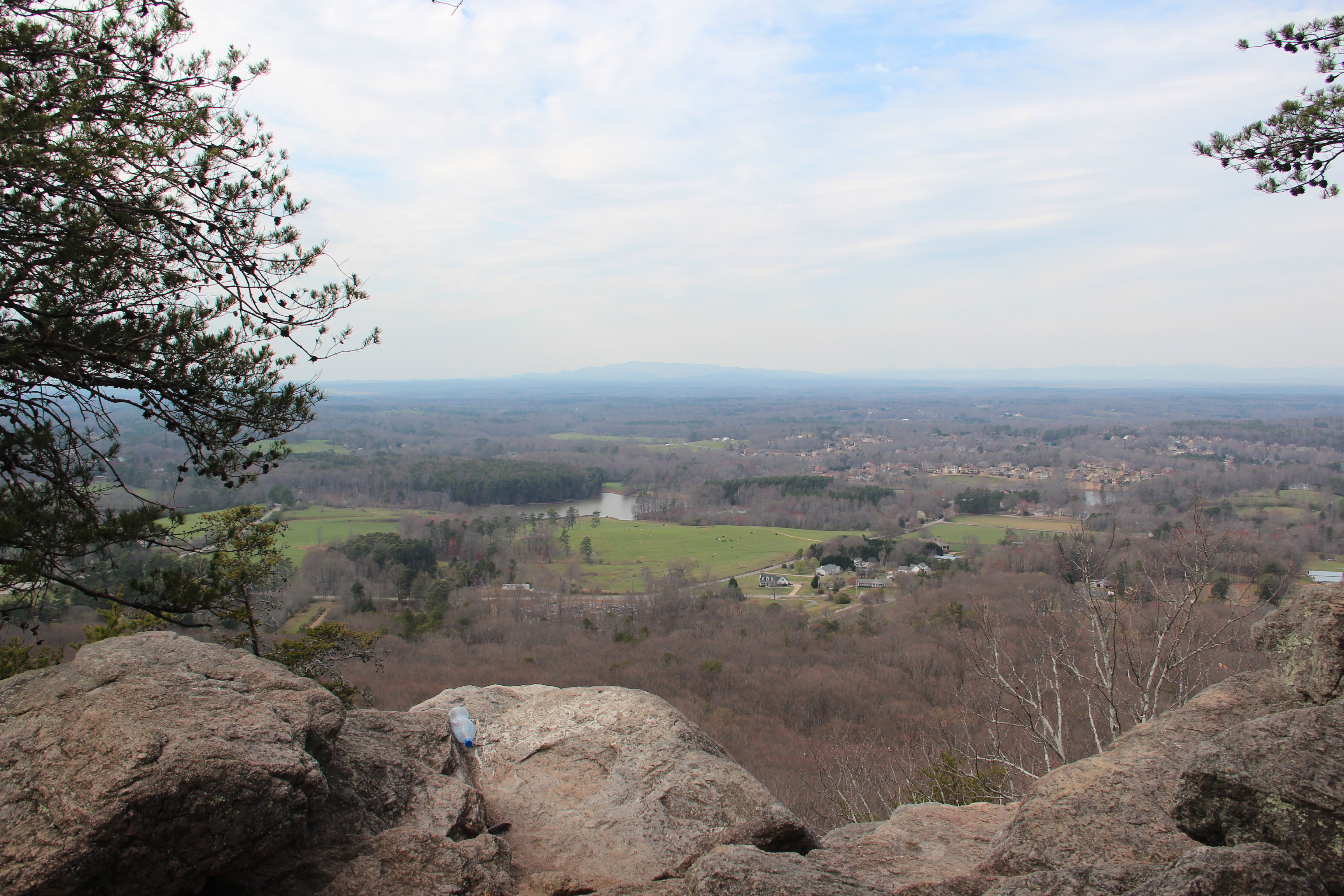 View from the Indian Seats at the Sawnee Mountain Preserve